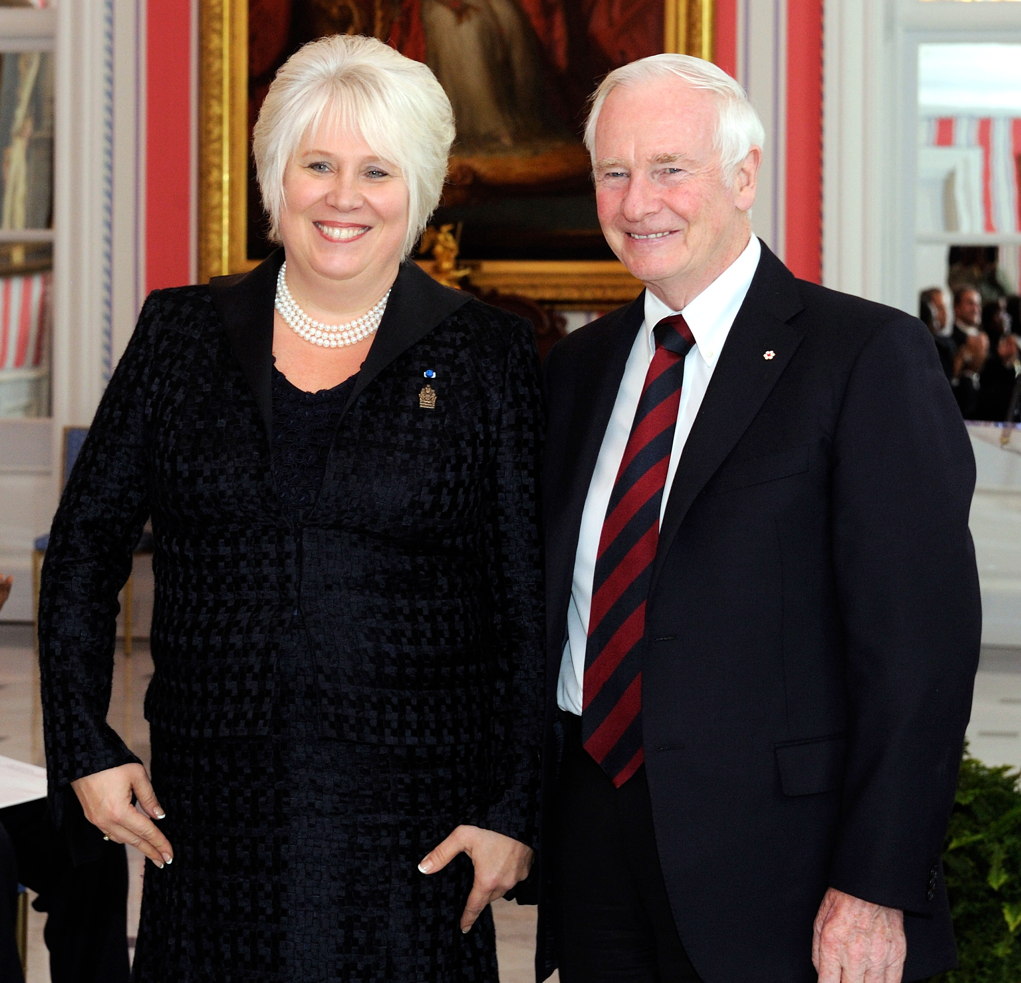 Estonian Ambassador Marina Kaljurand in Ottawa, Ontario, Canada, presenting her credentials to Canadian Governor General David Johnston.